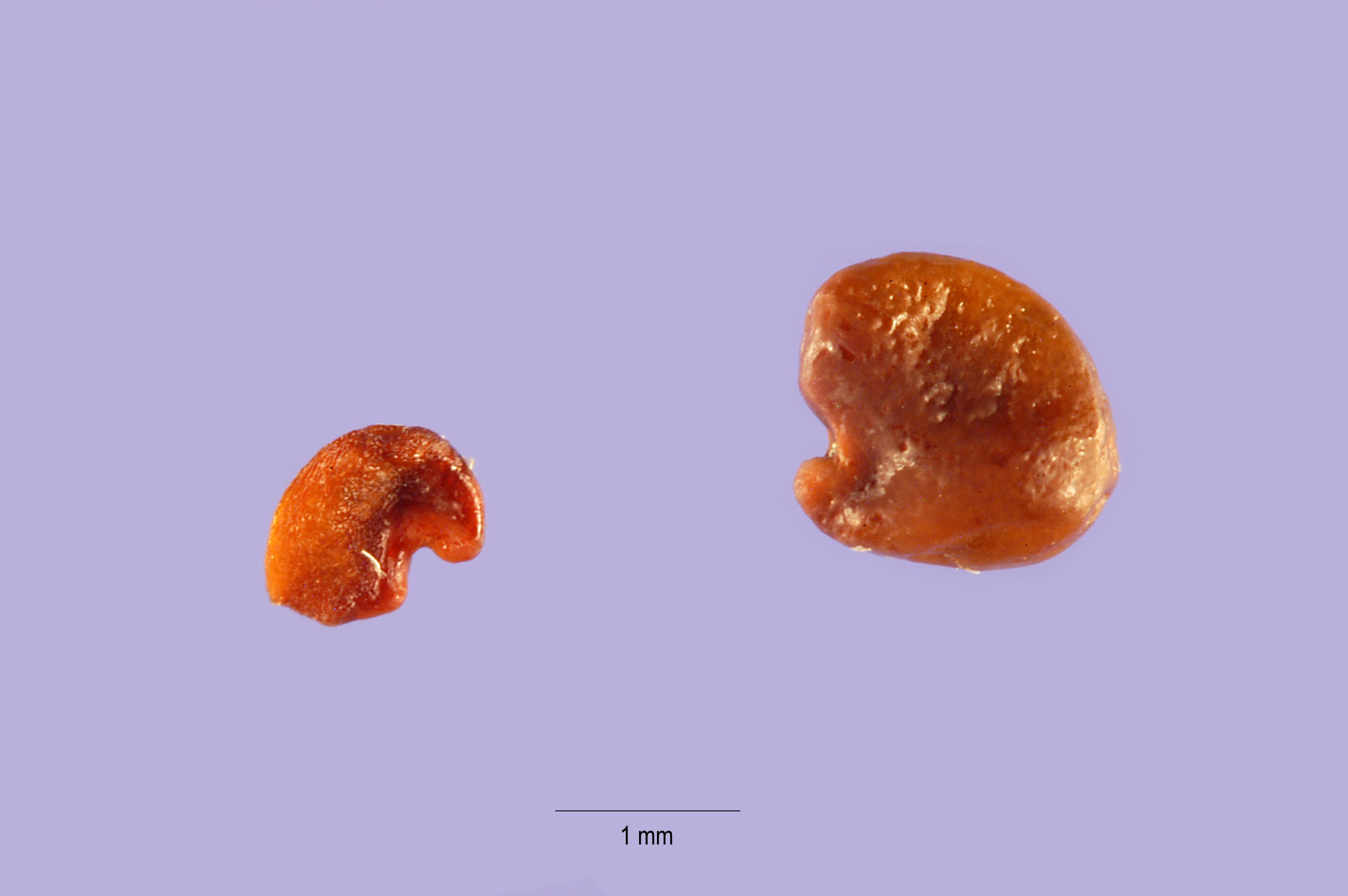 seeds of Astragalus flexuosus from Tracey Slotta. Provided by ARS Systematic Botany and Mycology Laboratory. United States, NM, Parsons